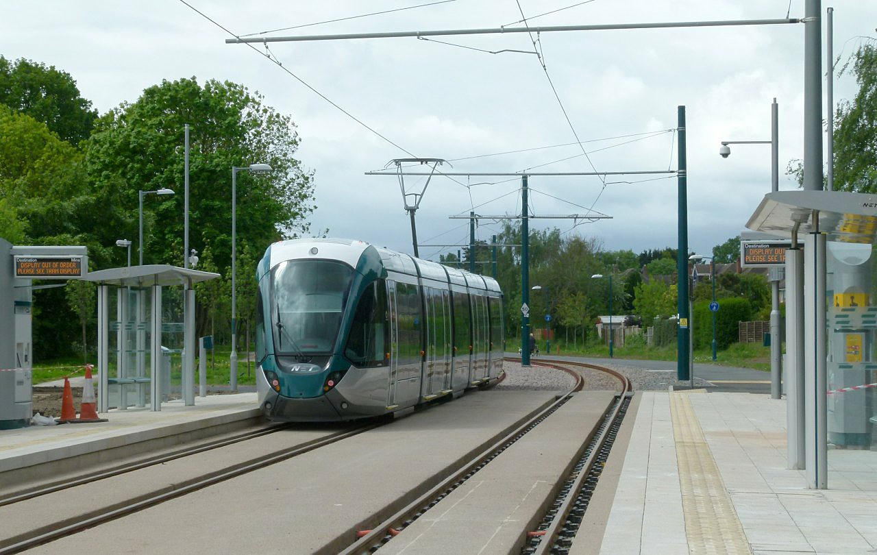 Tram on test at Cator Lane tram stop